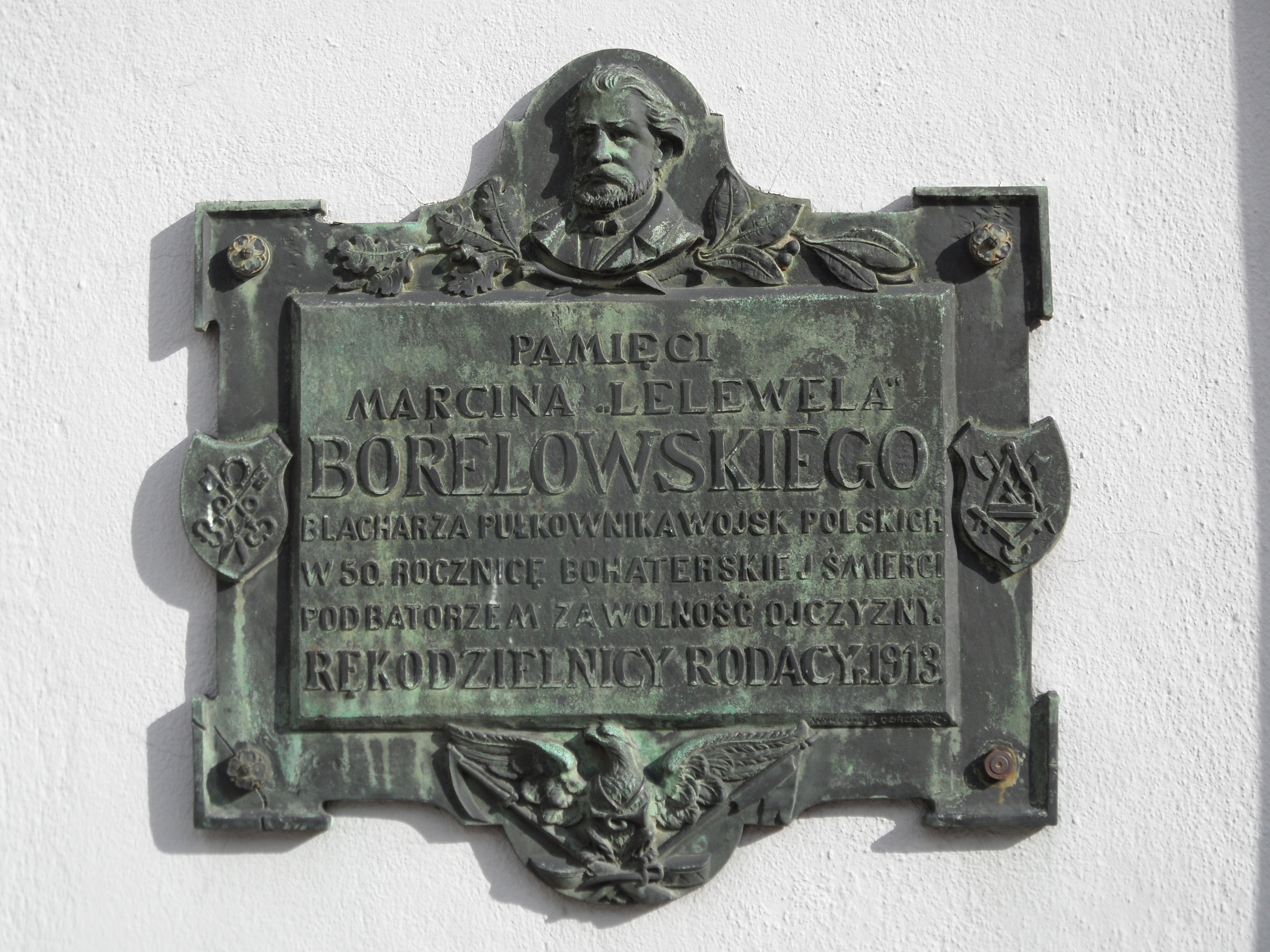 Marcin Borelowski plaque in Rzeszow